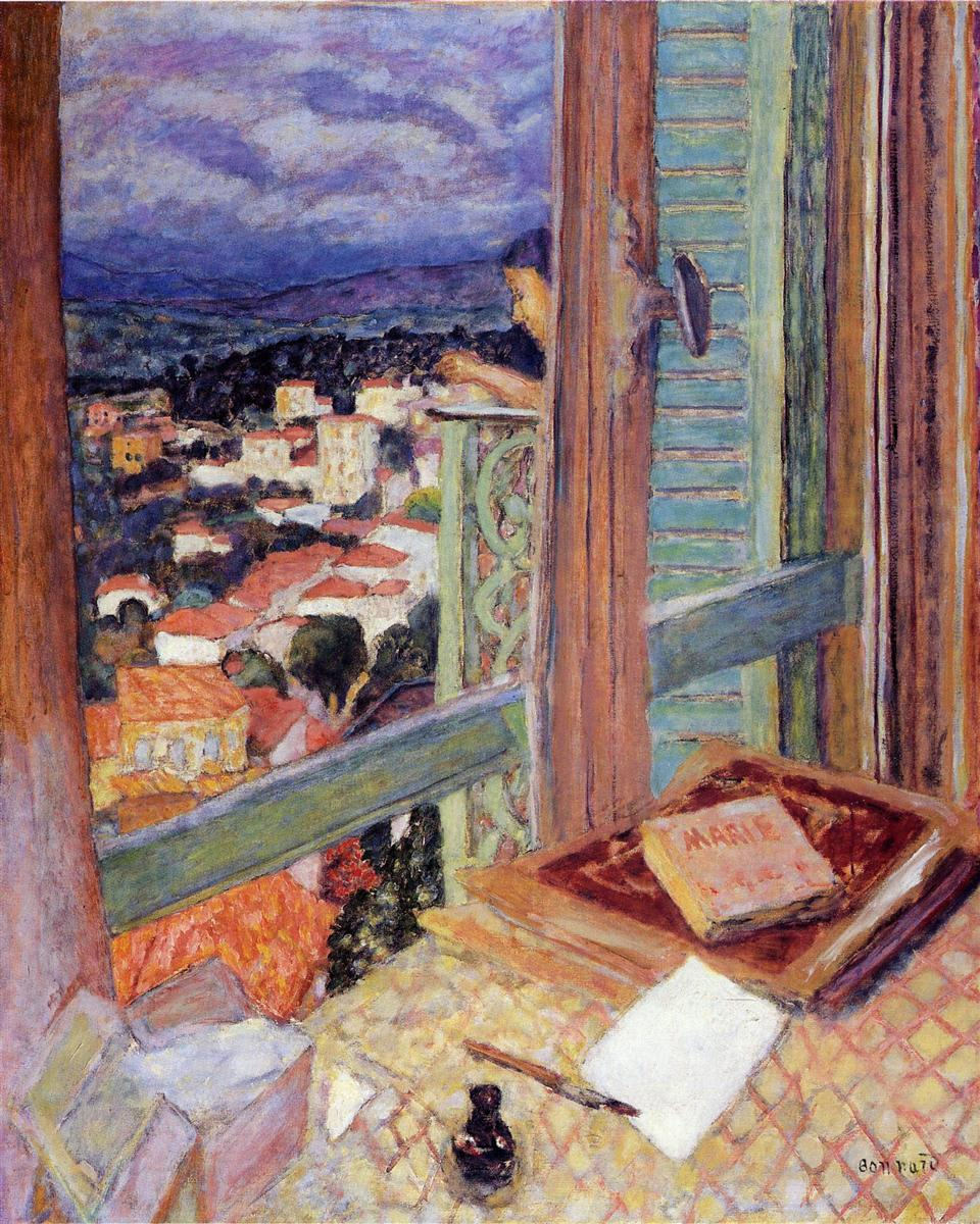 The window